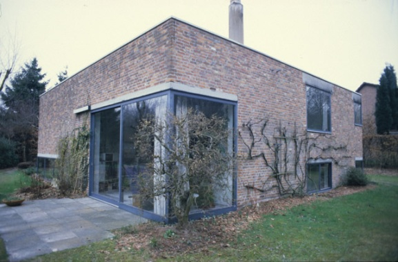 In Oud-Turnhout